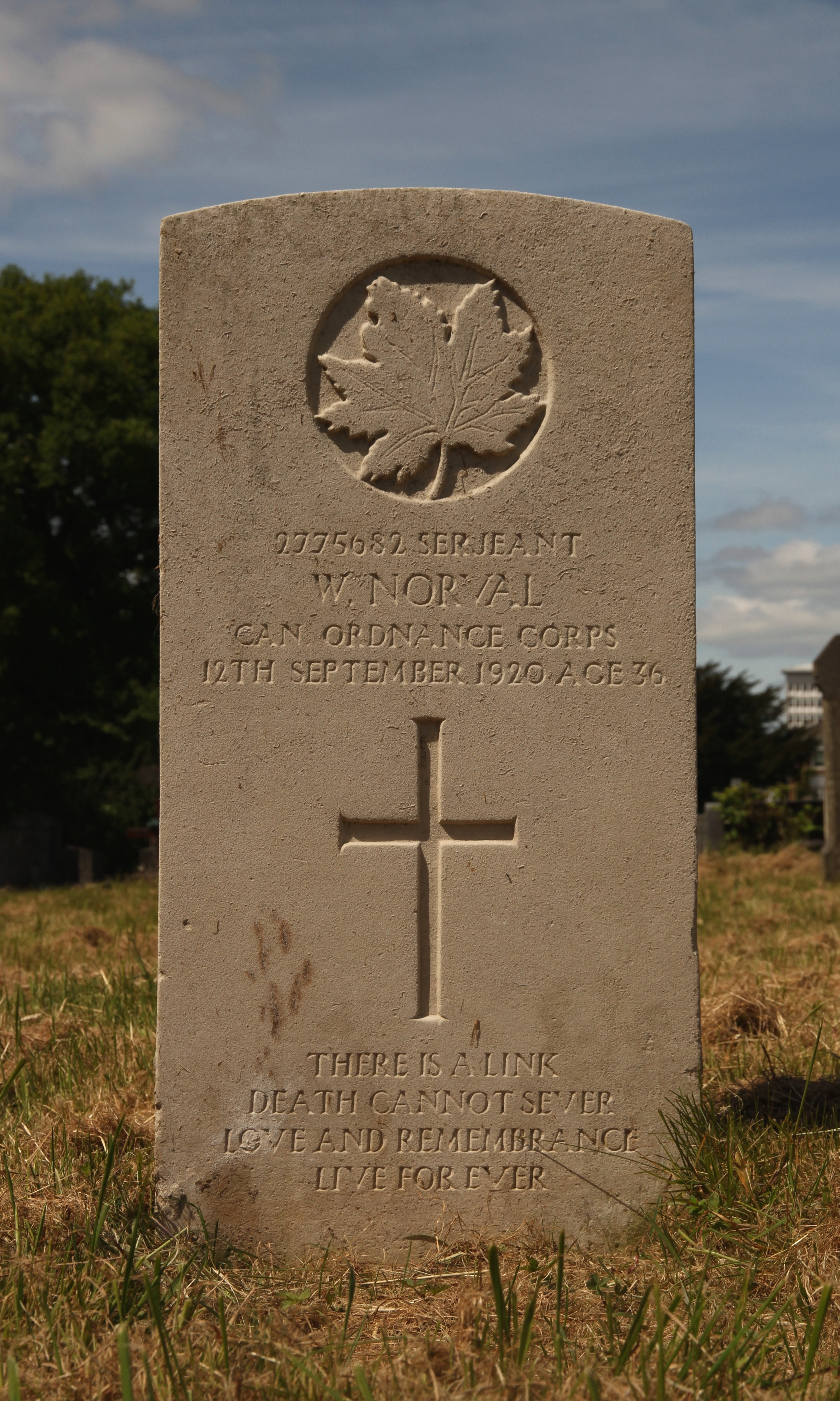 Cathays Cemetery, Cardiff: grave of Sergeant W Norval, Canadian Ordnance Corps